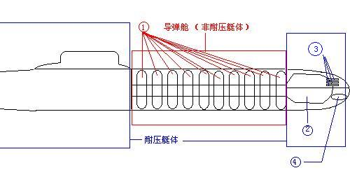 用于描述台风级潜艇的耐压舱 this pic is used for describing the cabin of Thphoon class